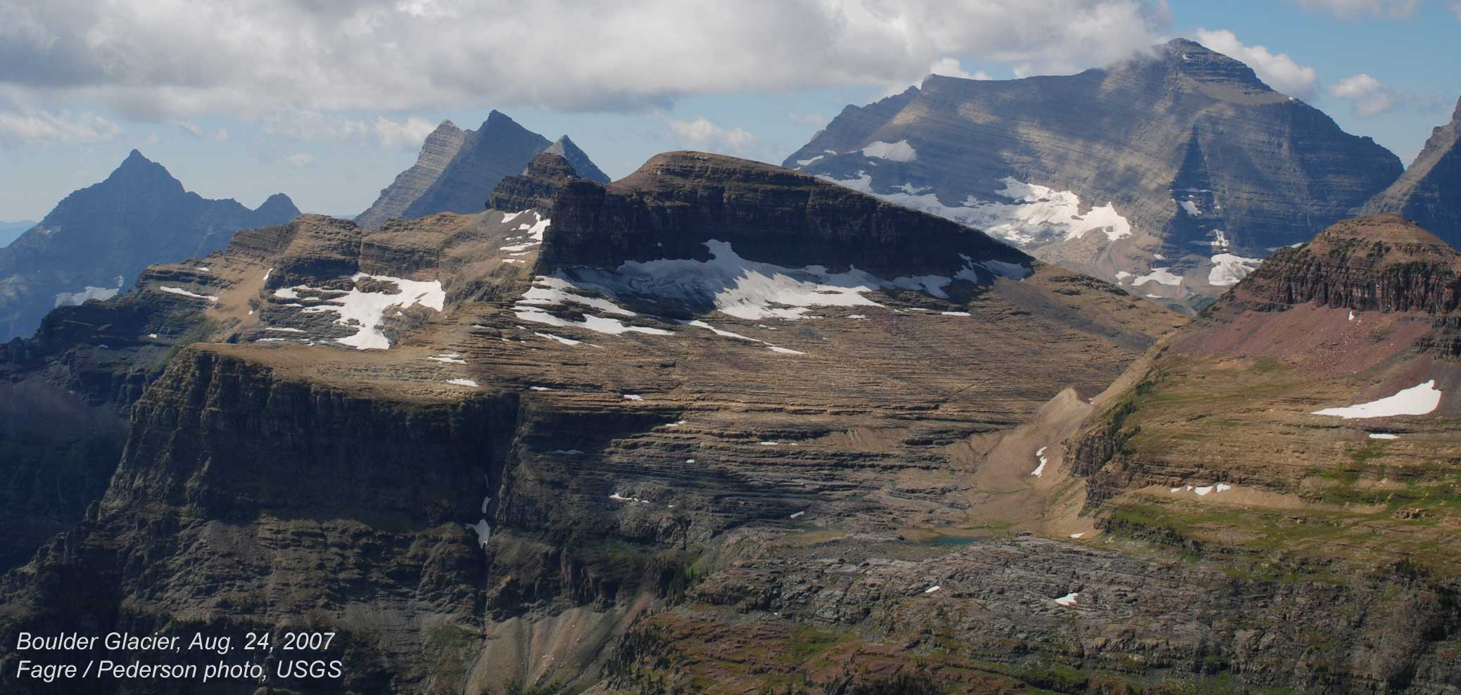 Boulder Glacier — on Boulder Mountain of the Livingston Range, in Glacier National Park, Montana. As seen in 2007.